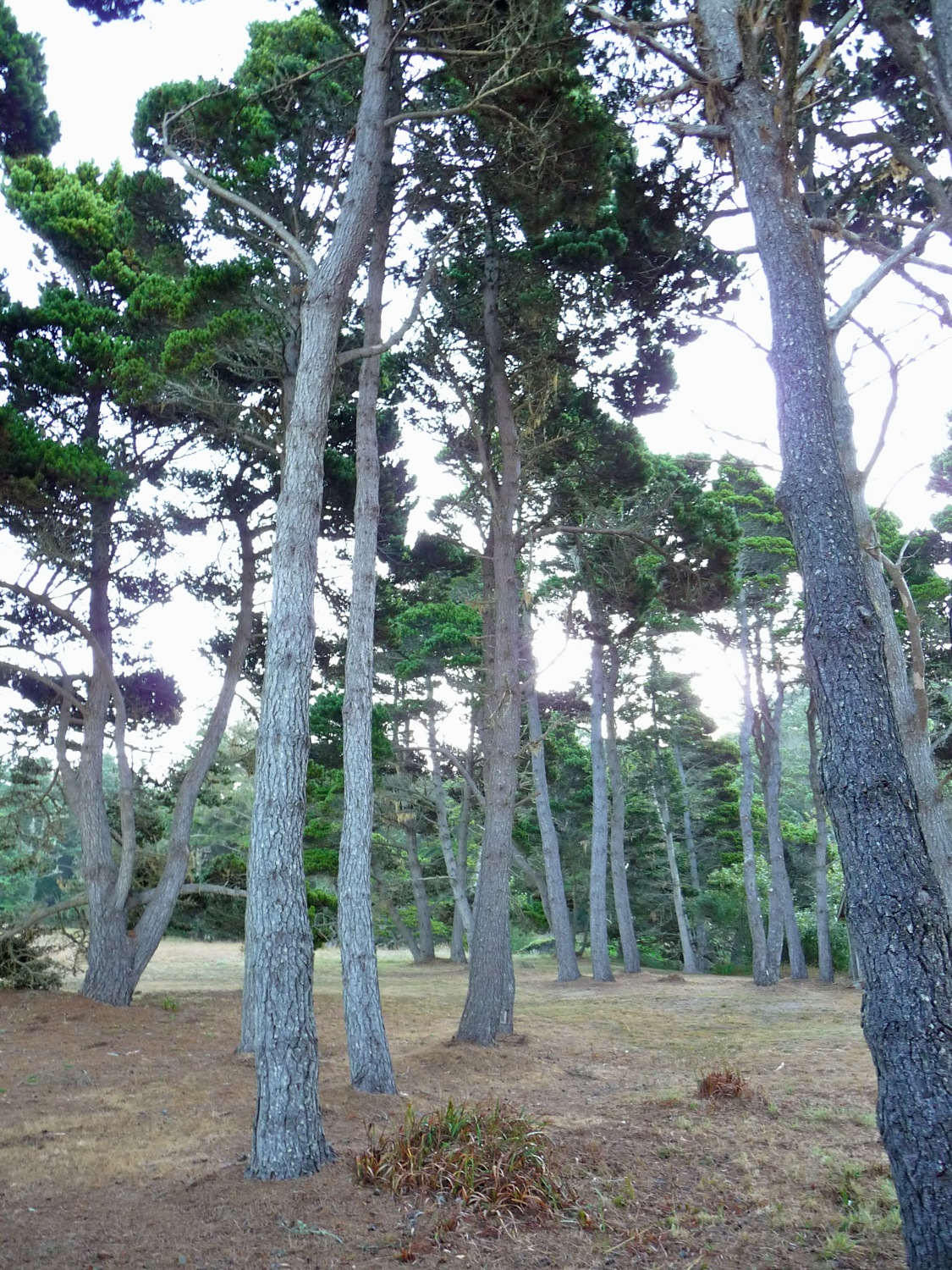 Pinus muricata, Mendocino, California